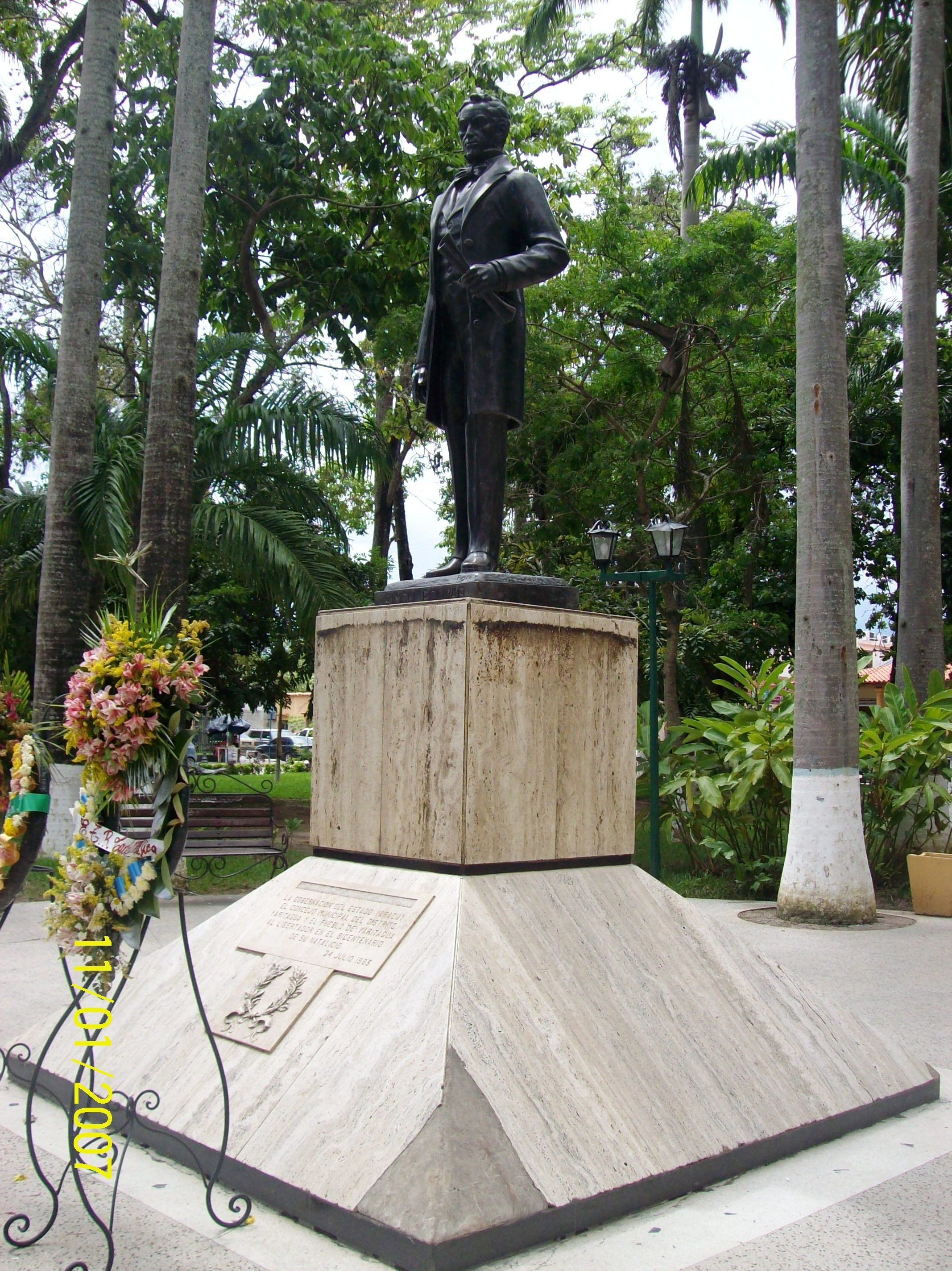 Bolívar square of Yaritagua, capital of the Peña Municipality. Yaracuy state. Venezuela.